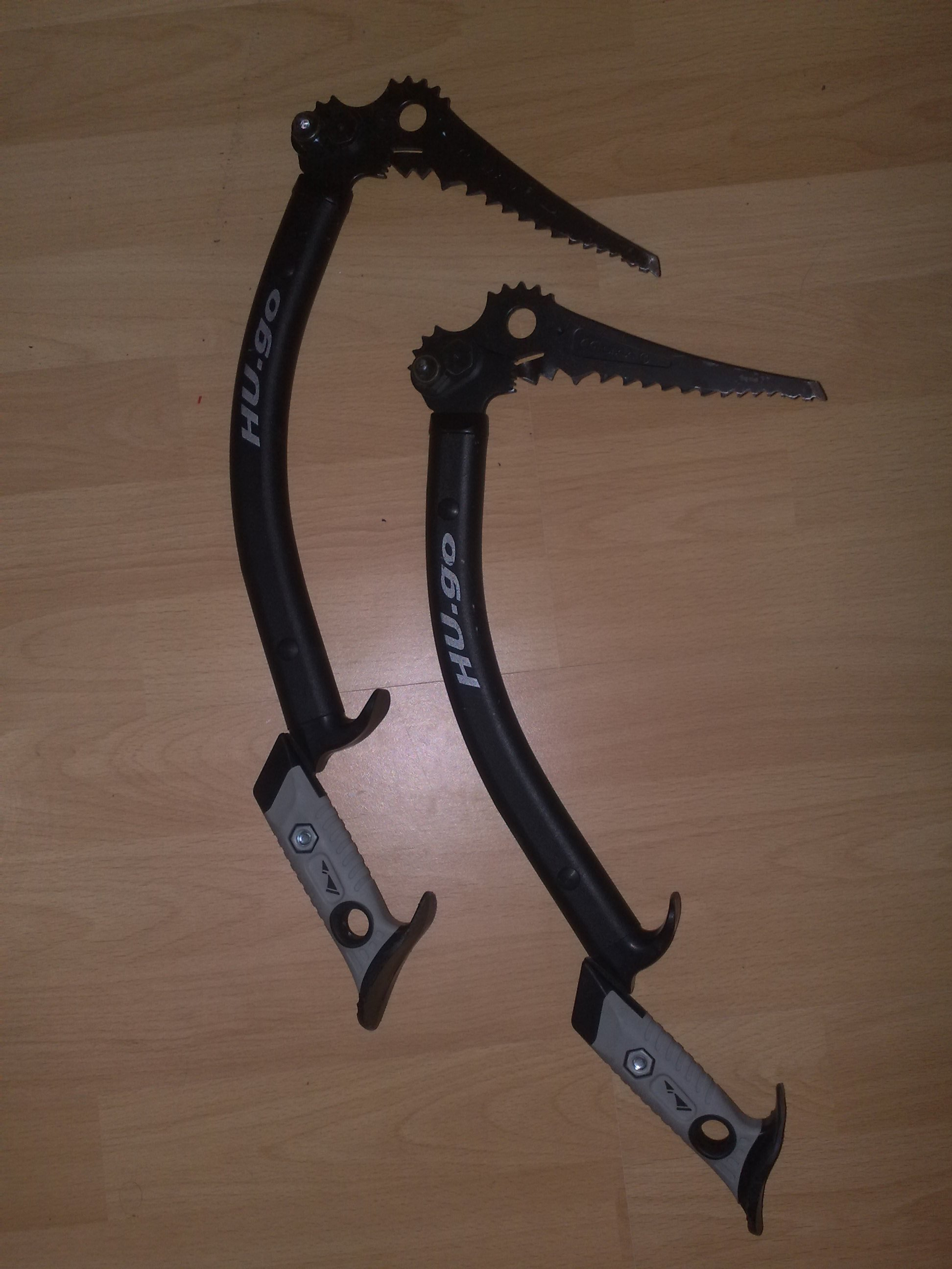 Ice tools